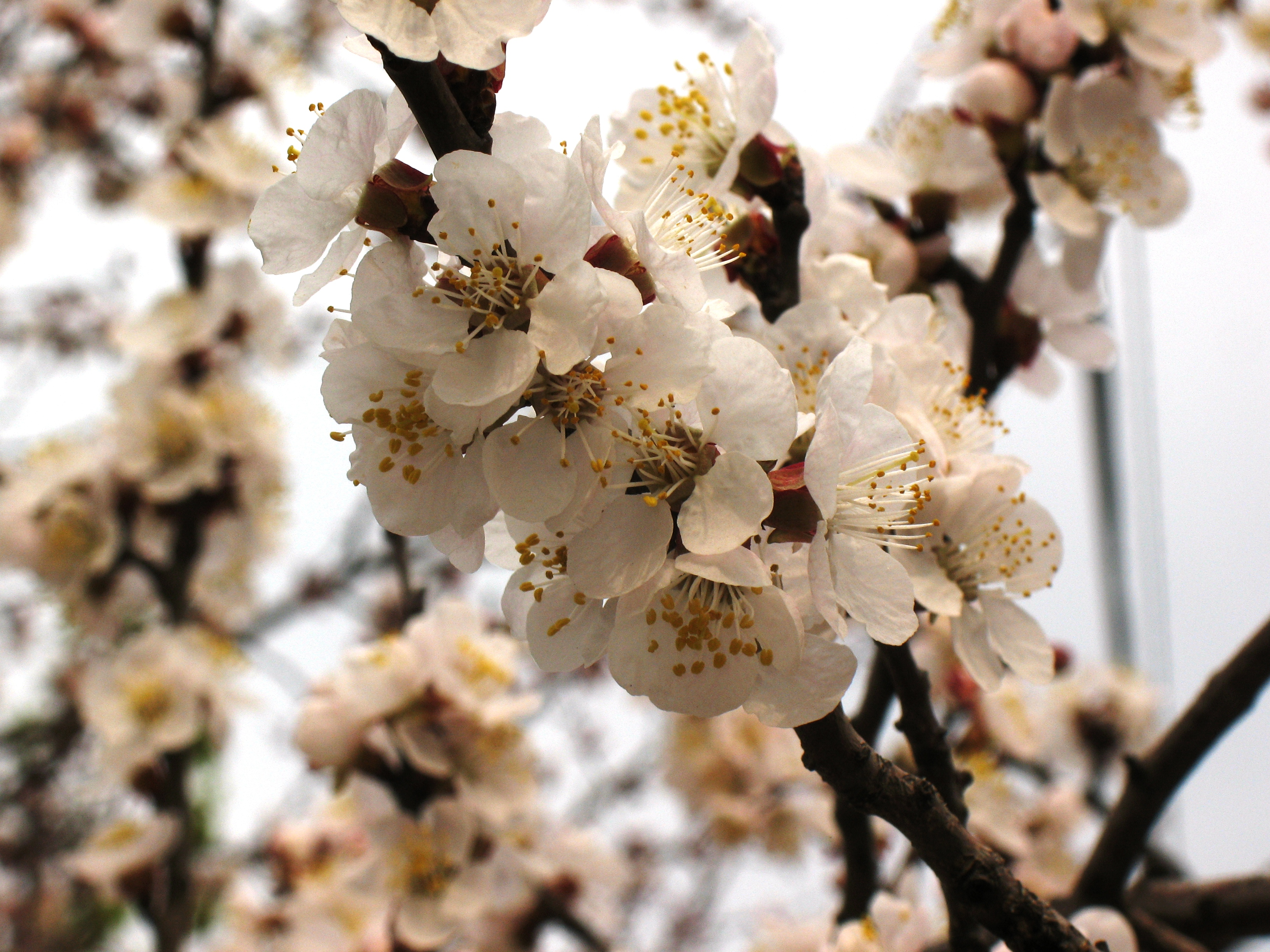 Prunus armeniaca flowers in Kharkov. 27 april.